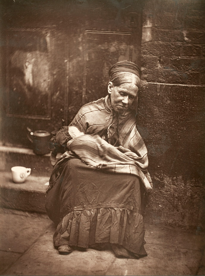 The crawlers, 1876 - 1877. Woodburytype, by John Thomson. According to Street Life in London: "Old 'Scotty' ... had been the wife of a wealthy man who spent all his money before dying, leaving her penniless and one of London's 'crawlers' (beggars). She told John Thomson: 'I am becoming more accustomed to it now ... What, however, I cannot endure, is the awful lazy, idle life I am forced to lead; it is a thousand times worse than the hardest labour, and I would much rather my hands were cut, blistered, and sore with toil, than, as you see them, swollen, and red, and smarting from the exposure to the sun, the rain, and the cold.'" [1]